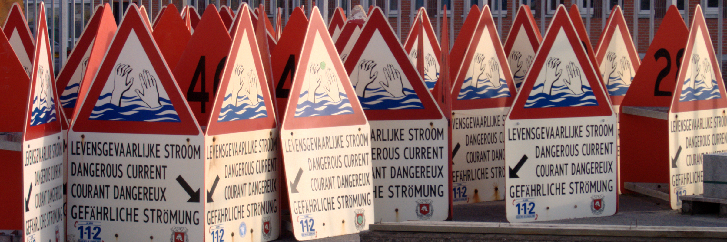 Rip current warning signs in four languages (Dutch, English, French, German) stocked near the beach in Scheveningen, the Netherlands.